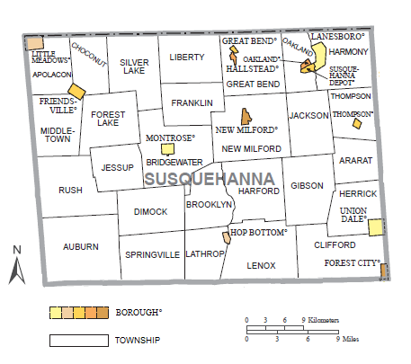 A map of Susquehanna County, Pennsylvania, showing the borders of the townships and boroughs contained within it, edited from the original 2010 census map. Original image included Lackawanna, Wayne, and Wyoming Counties, and excluded the key (which came from page 2). The north arrow and the scale have been moved.